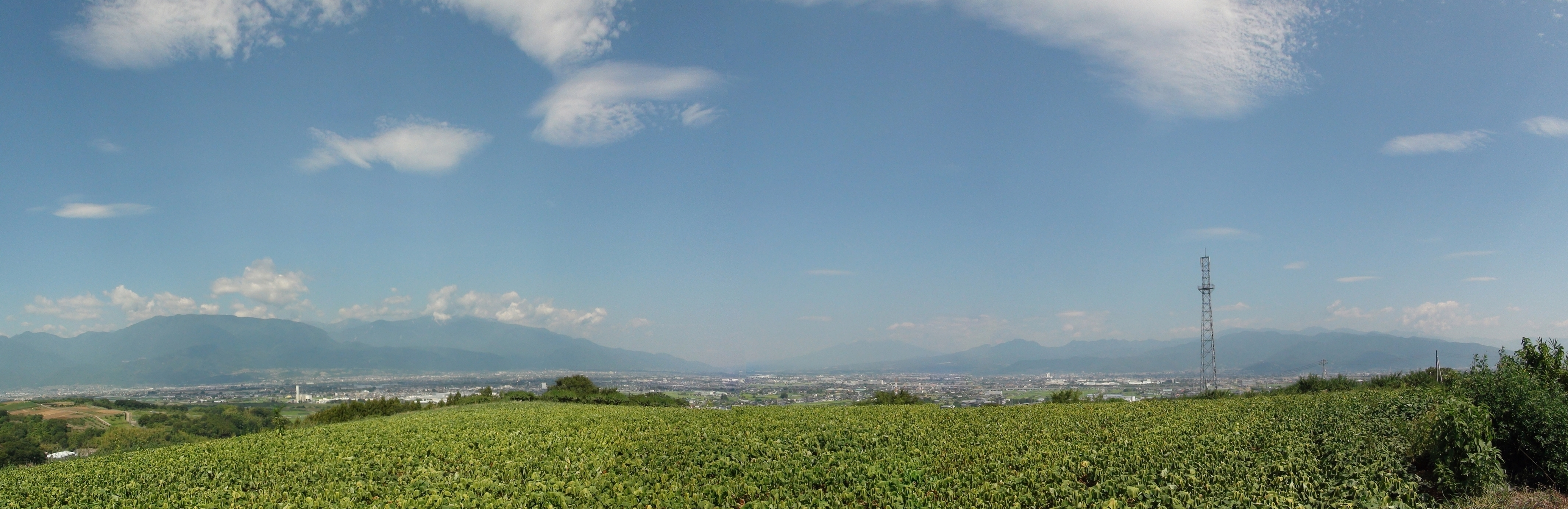 western areas Kofu Basin,from the Ouzuka-Kofun